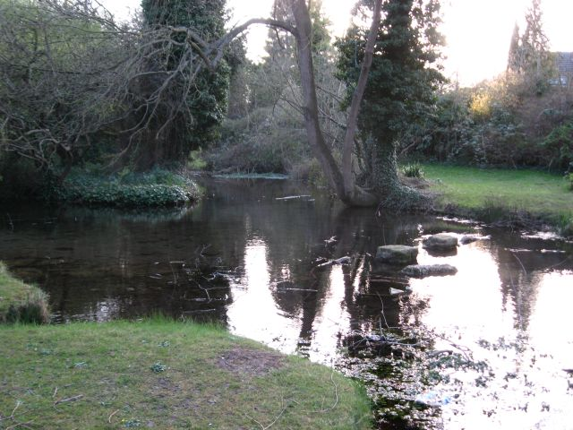 Giant's Grave According to tradition, the giant Magog (associated with the Gog Magog hills a few miles south) is buried on the island in the pool here. The spring feeding this pool provided the water supply for Cherry Hinton, and later for much of Cambridge.